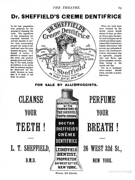 This is an 1890s advertisement for "Dr. Sheffield's Creme Dentifrice", the first toothpaste sold in a tube, and the first paste-textured toothpaste. Previously, tooth powder was used.